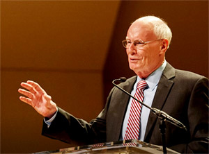 Dr. Paul Wehman presenting at the podium.